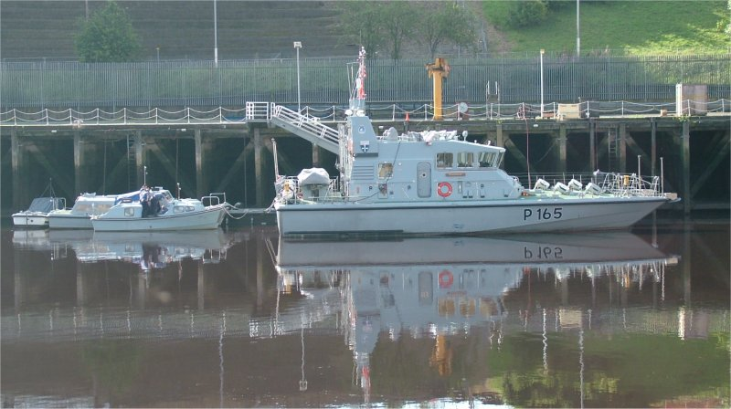 HMS Example, an Archer class fast patrol boat - at HMS Calliope - Gateshead - River Tyne - England, 14th August 2004